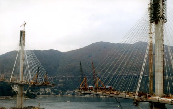 Ting Kau Bridge in hong kong under construction This is a retouched picture, which means that it has been digitally altered from its original version. Modifications: colors edited. Modifications made by Glabb.